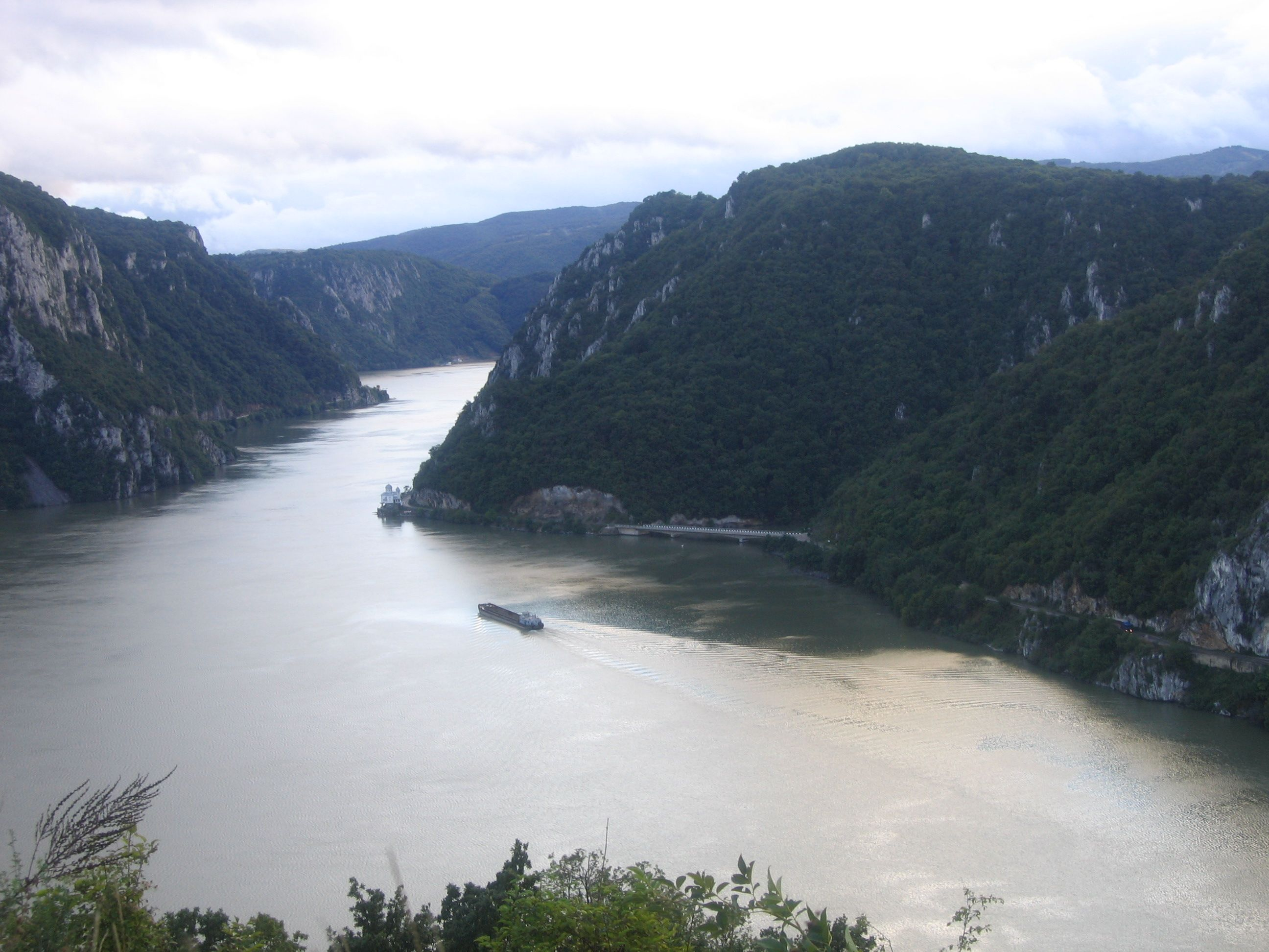 Danube Iron Gate